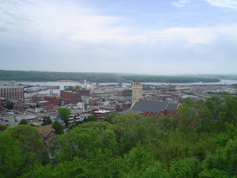 A view of downtown Dubuque from the observation deck of the Fourth Street Elevator. In this photo, you can see the Julien Dubuque Bridge, as well as the southern part of Dubuque.